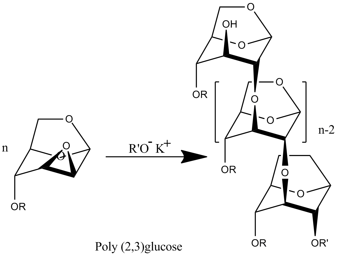 chemical structure of poly(2,3)glucose